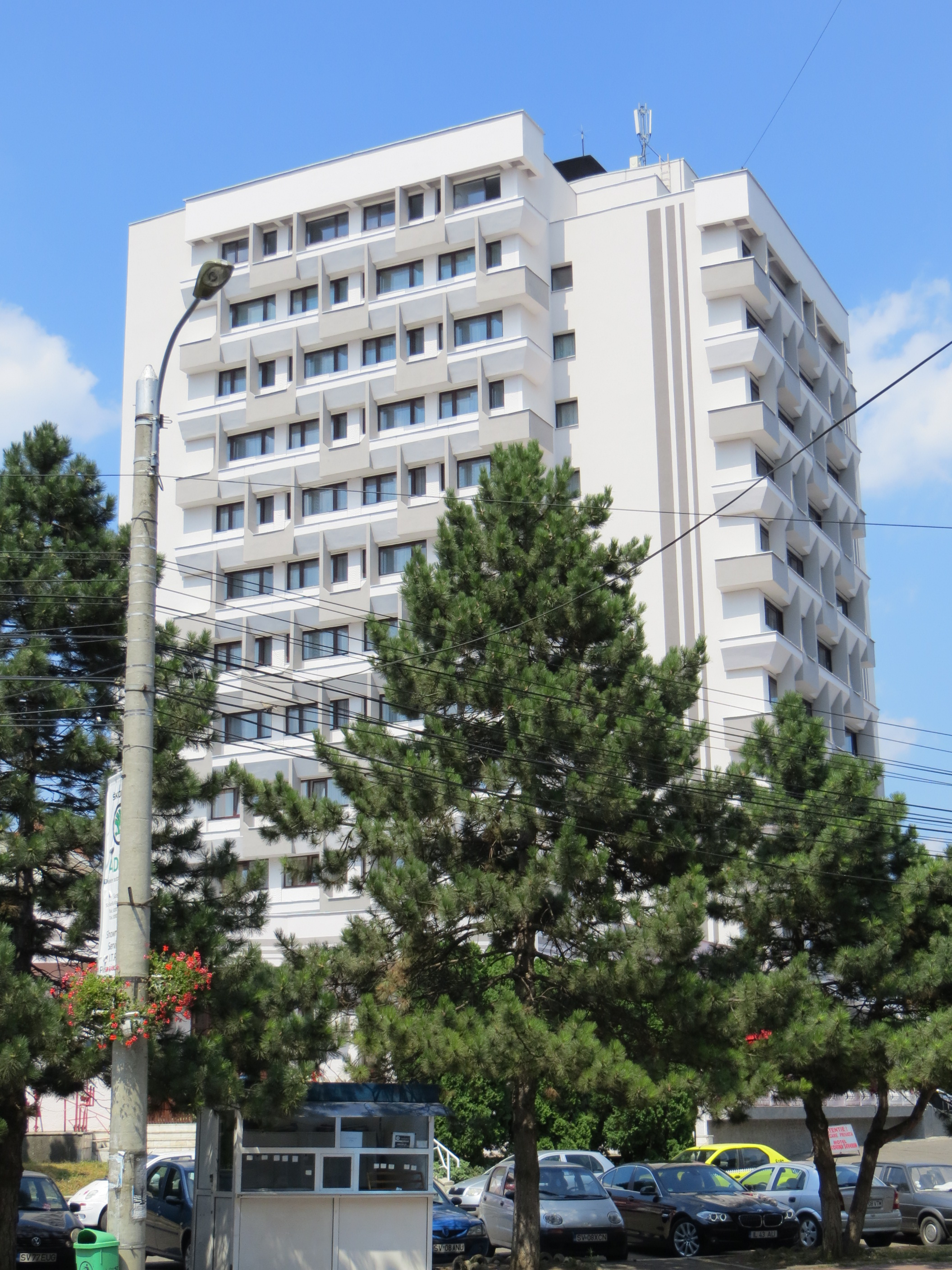 Bukovina Hotel in Suceava.